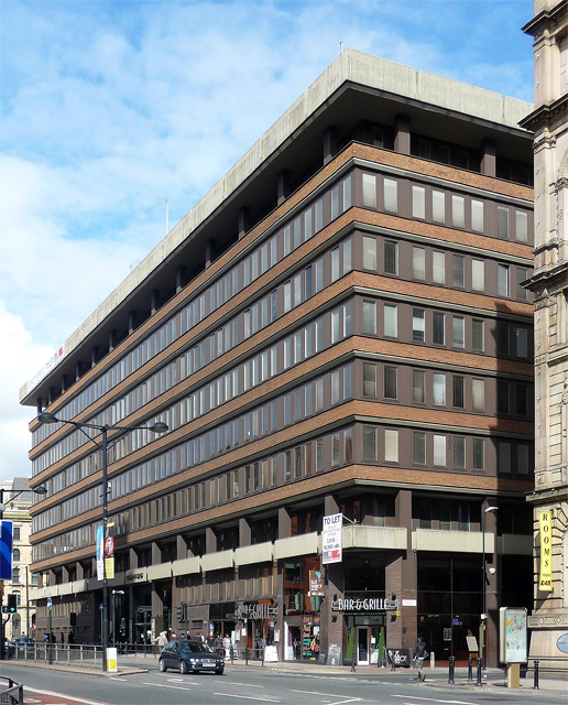 Westminster House, Portland Street, Manchester, England. Large U-shaped office block clad in dark-brown and yellowy-brown brick, and two bands of exposed ribbed concrete. Designed by Fitzroy Robinson & Partners and completed in 1974. Its largeness is due to this being built as County Hall, the headquarters of the former Greater Manchester County Council, abolished, along with the other metropolitan county councils, by Margaret Thatcher's government in 1986. Currently occupied by a variety of shops, bars and restaurants, and offices above.